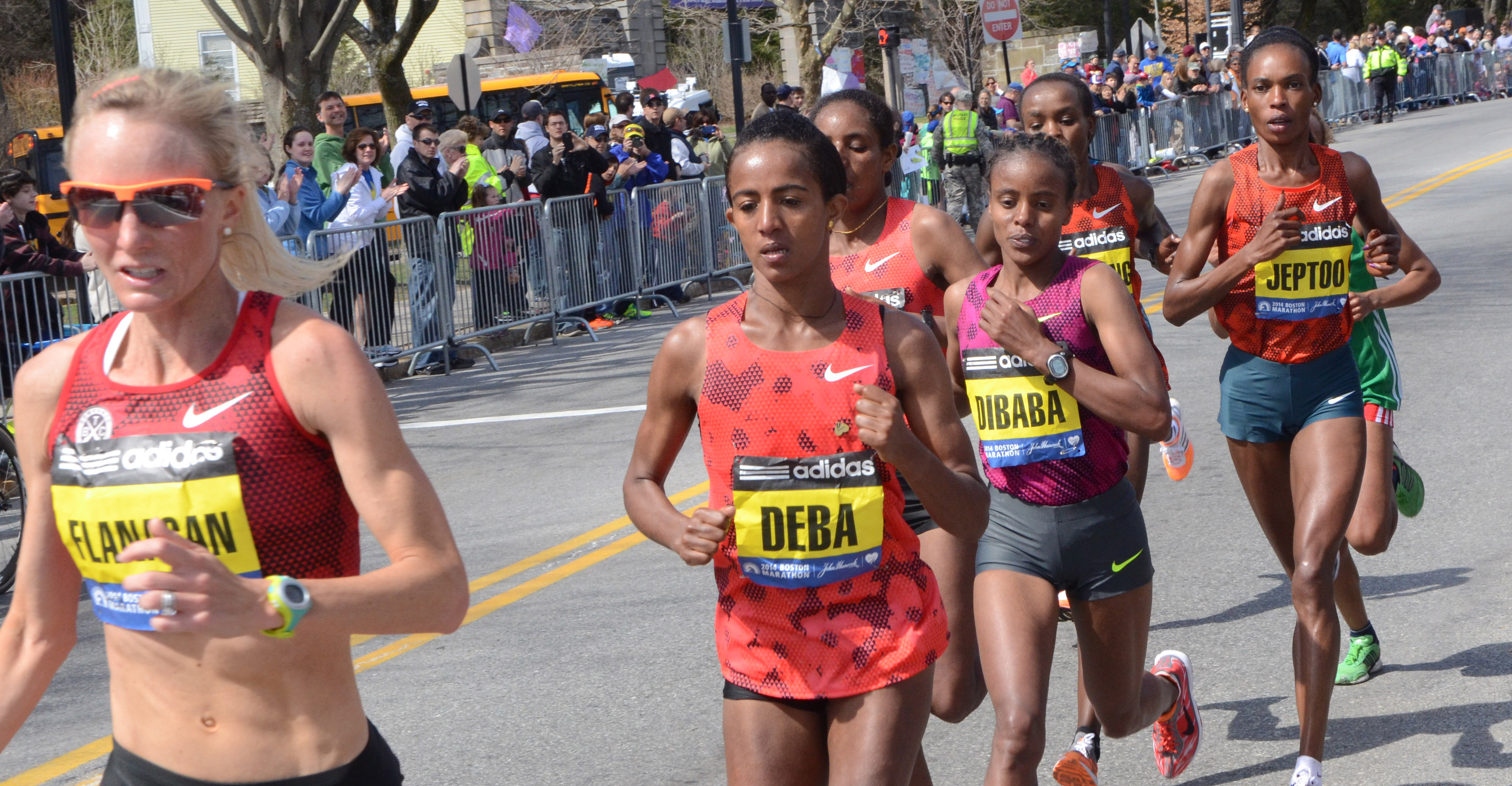 Lead pack of women in 2014 Boston Marathon near half way point in Wellesley